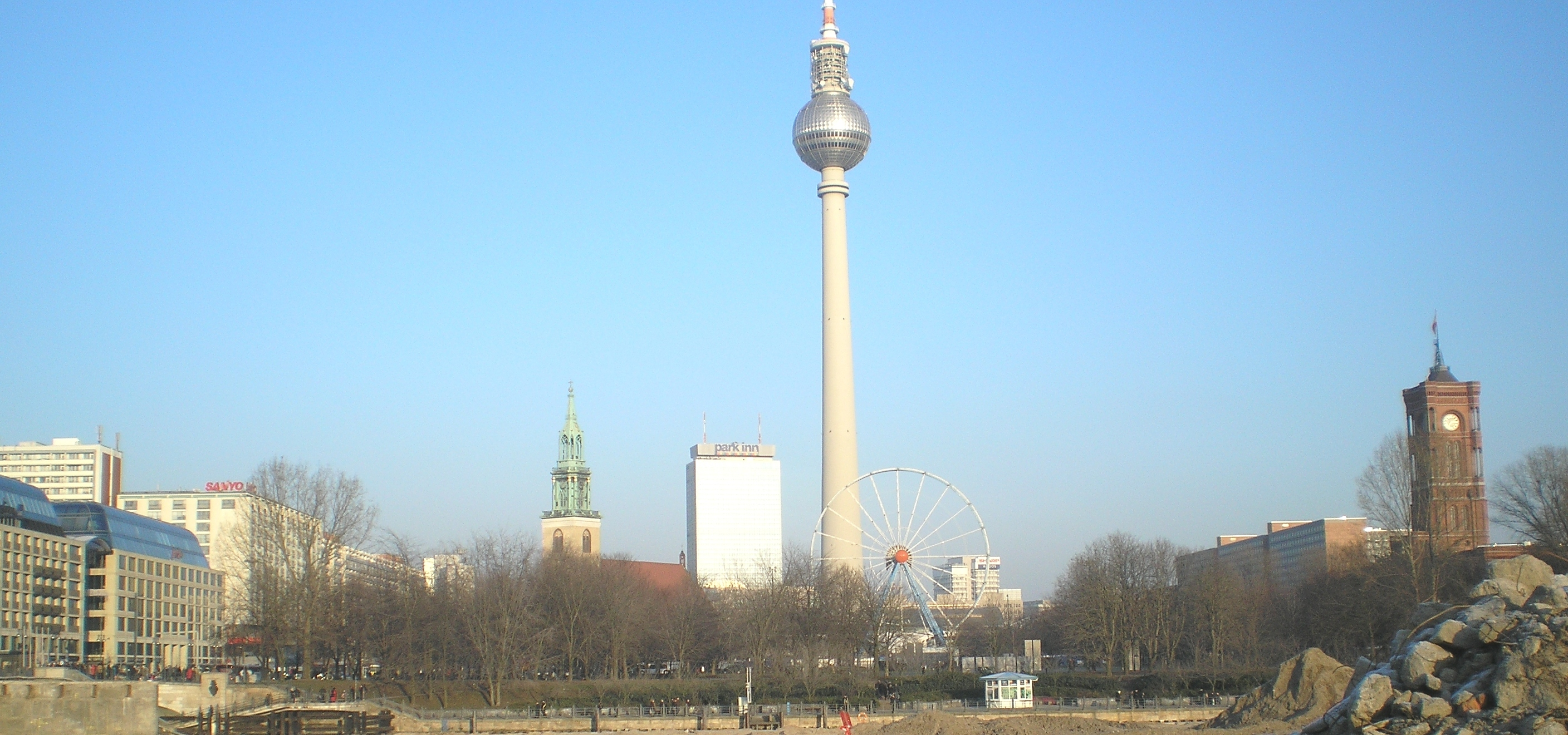 former Marienviertel (quarter of St. Mary) in Berlin, view from Schlossplatz to TV tower